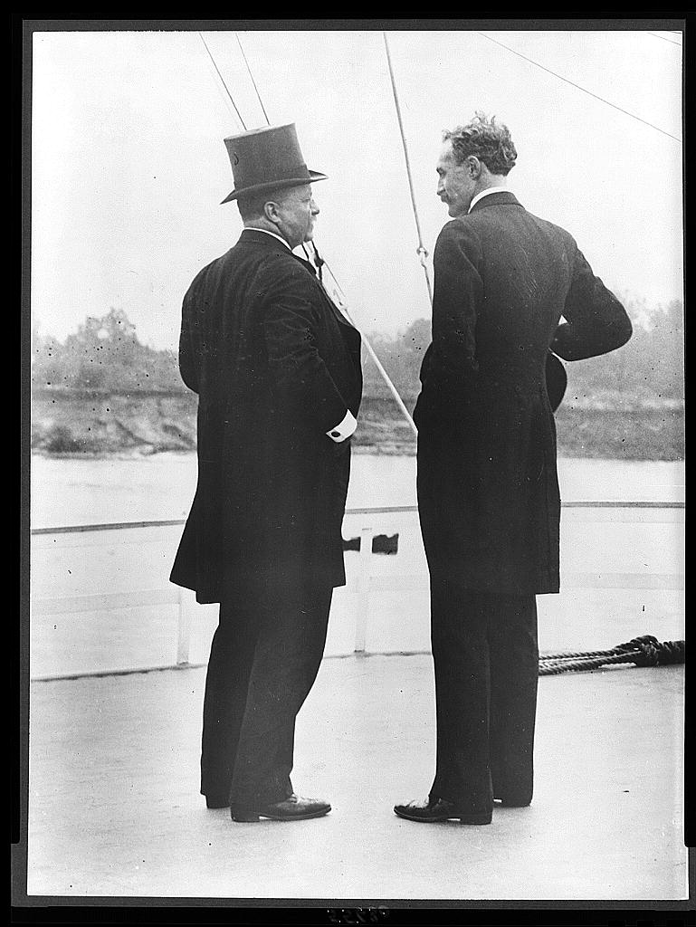 Theodore Roosevelt and Gifford Pinchot standing on deck of steamer Mississippi, 1907 while attending the Inland Waterways Commission